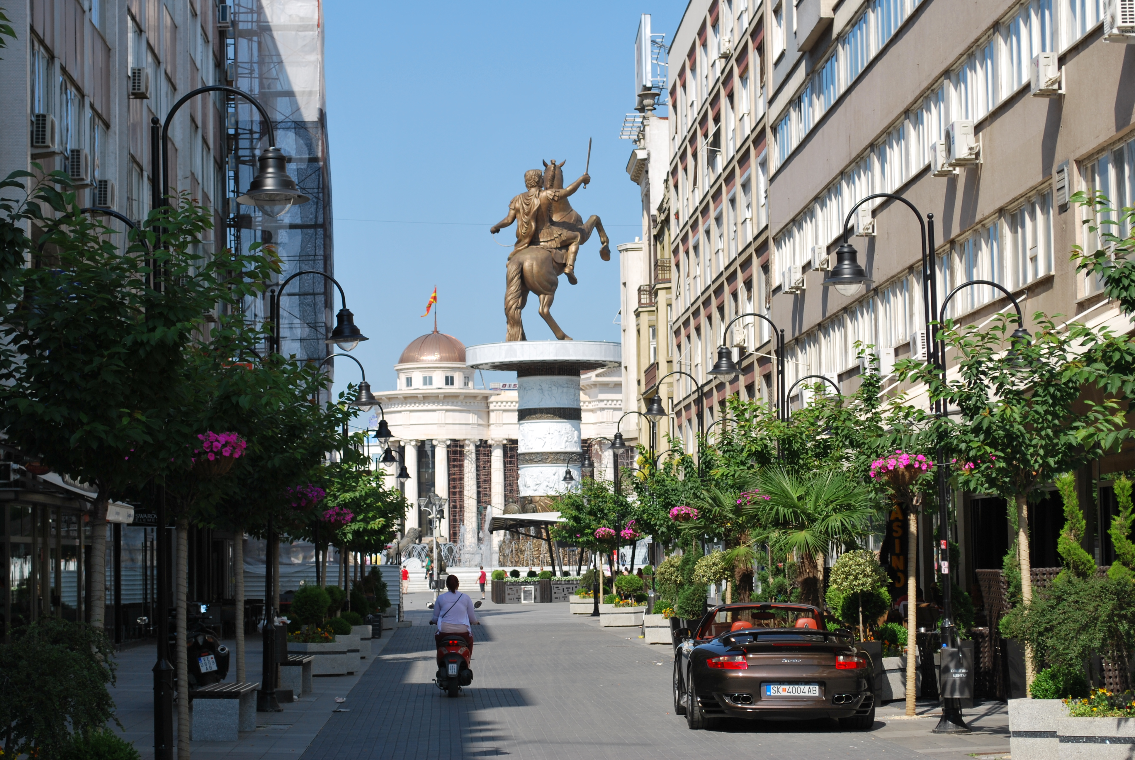 Skopje, Macedonia